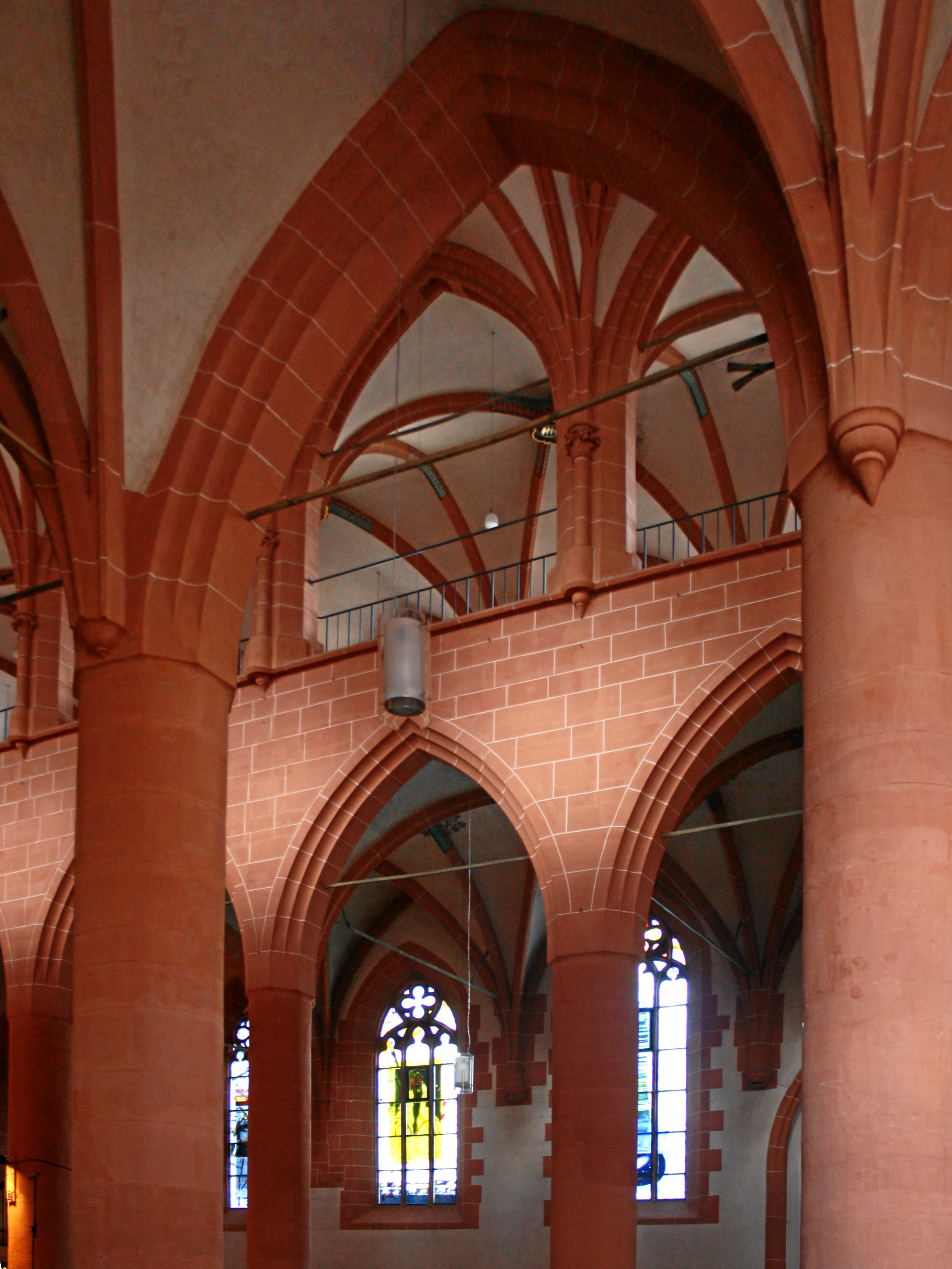 Heidelberg, Germany. Protestant church Heiliggeist: Northern wall of the nave.